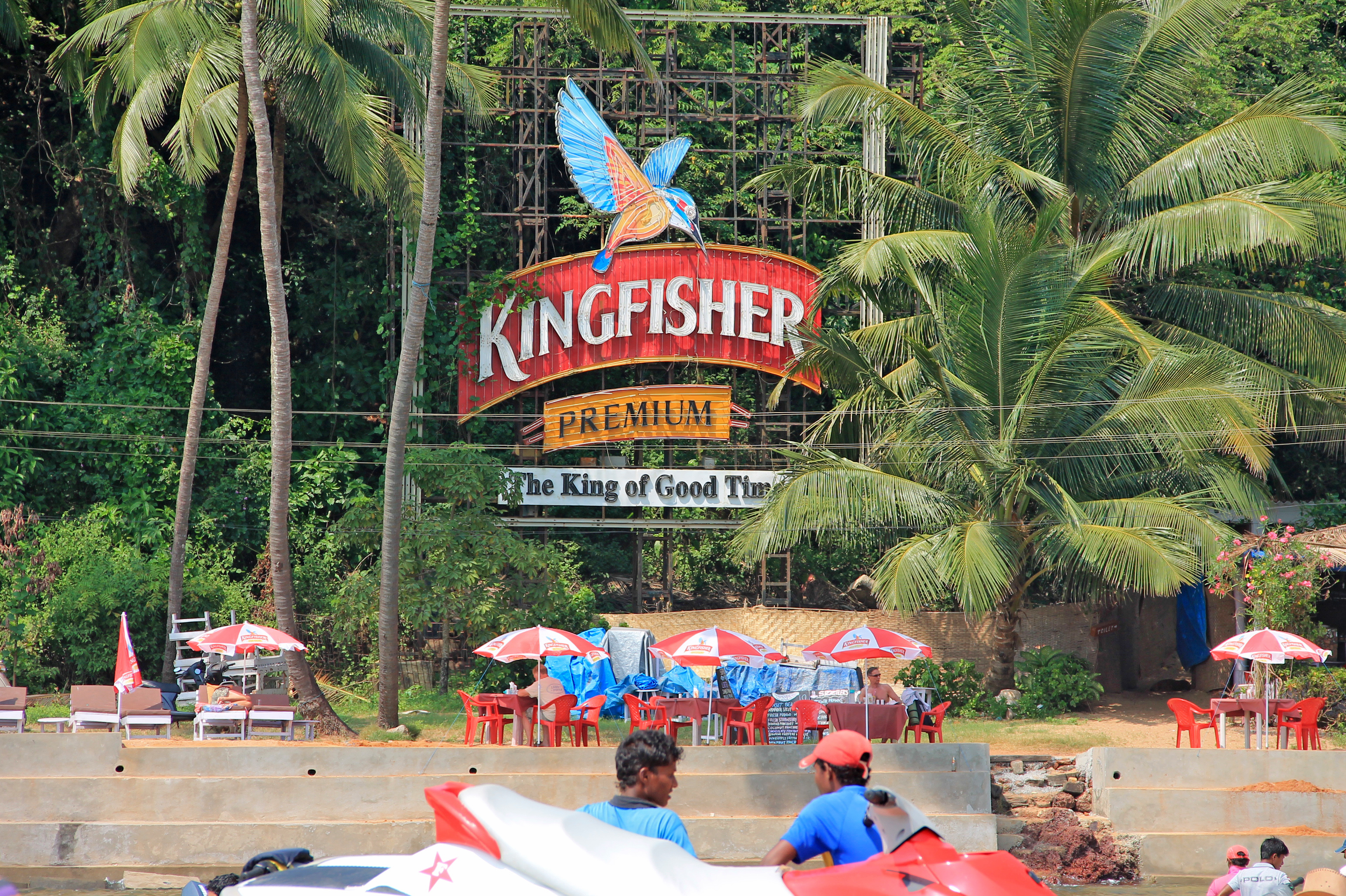 Kingfisher beer ad in Goa, Baga